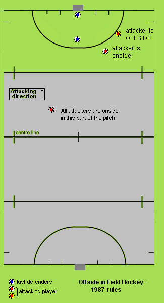 Own - but needs more work - work of User:shirt58, based on free image :Image:Hockey field.svg by guru merkel-ji